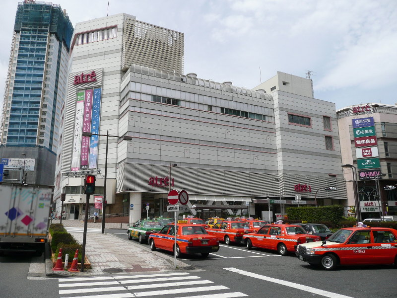 East Exit of JR East Meguro Station